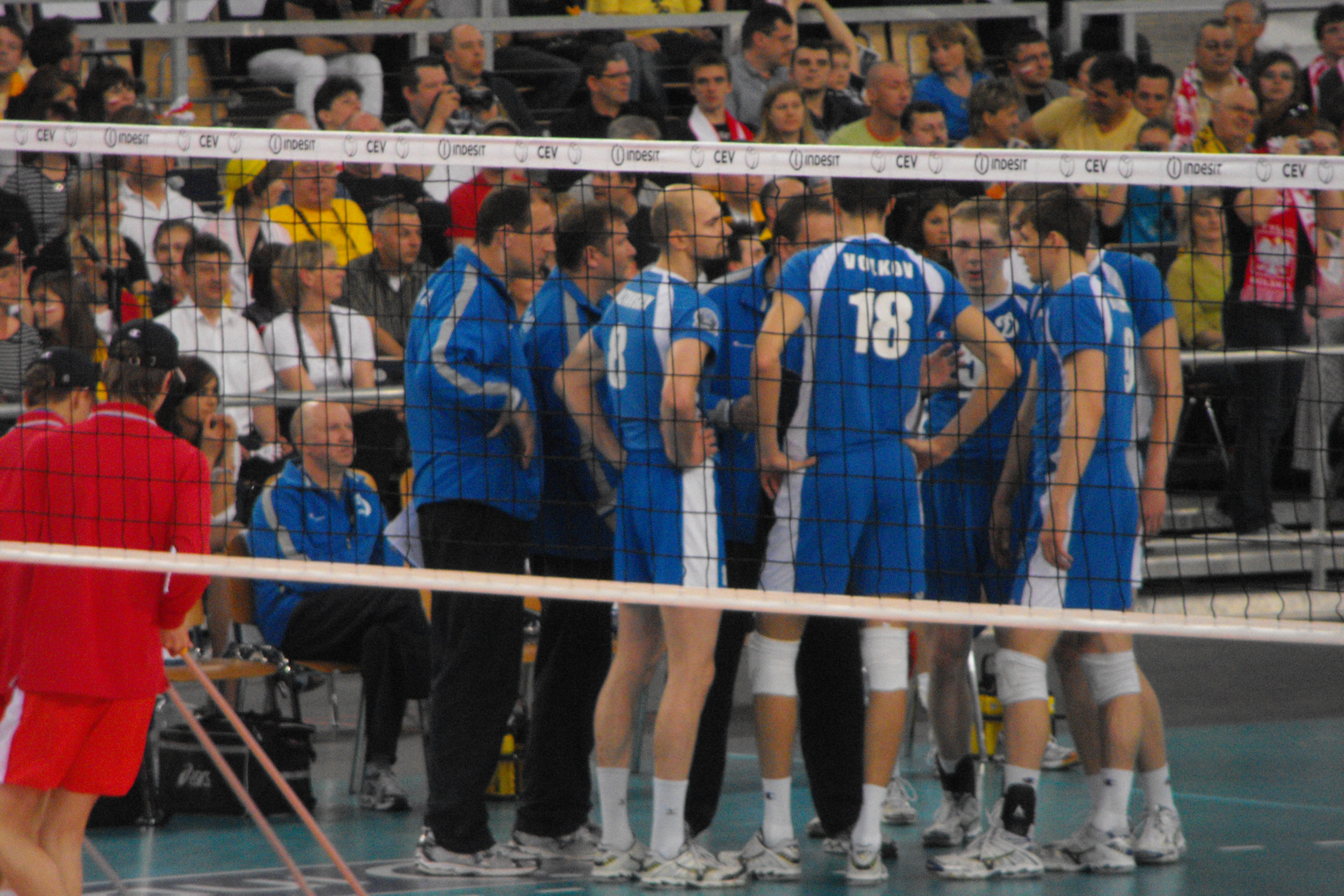 Dynamo Moscow while FF Champions Legaue in Lodz (Atlas Arena).